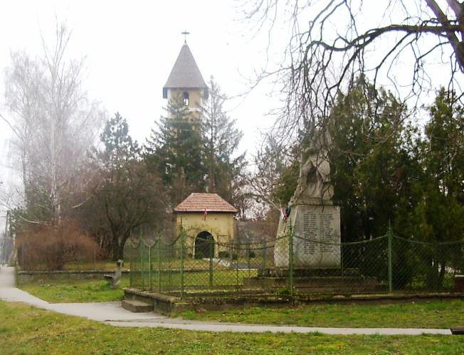 Lovászpatona, Lutheran church and WWI memorial This is a photo of a monument in Hungary, Identifier: 5064